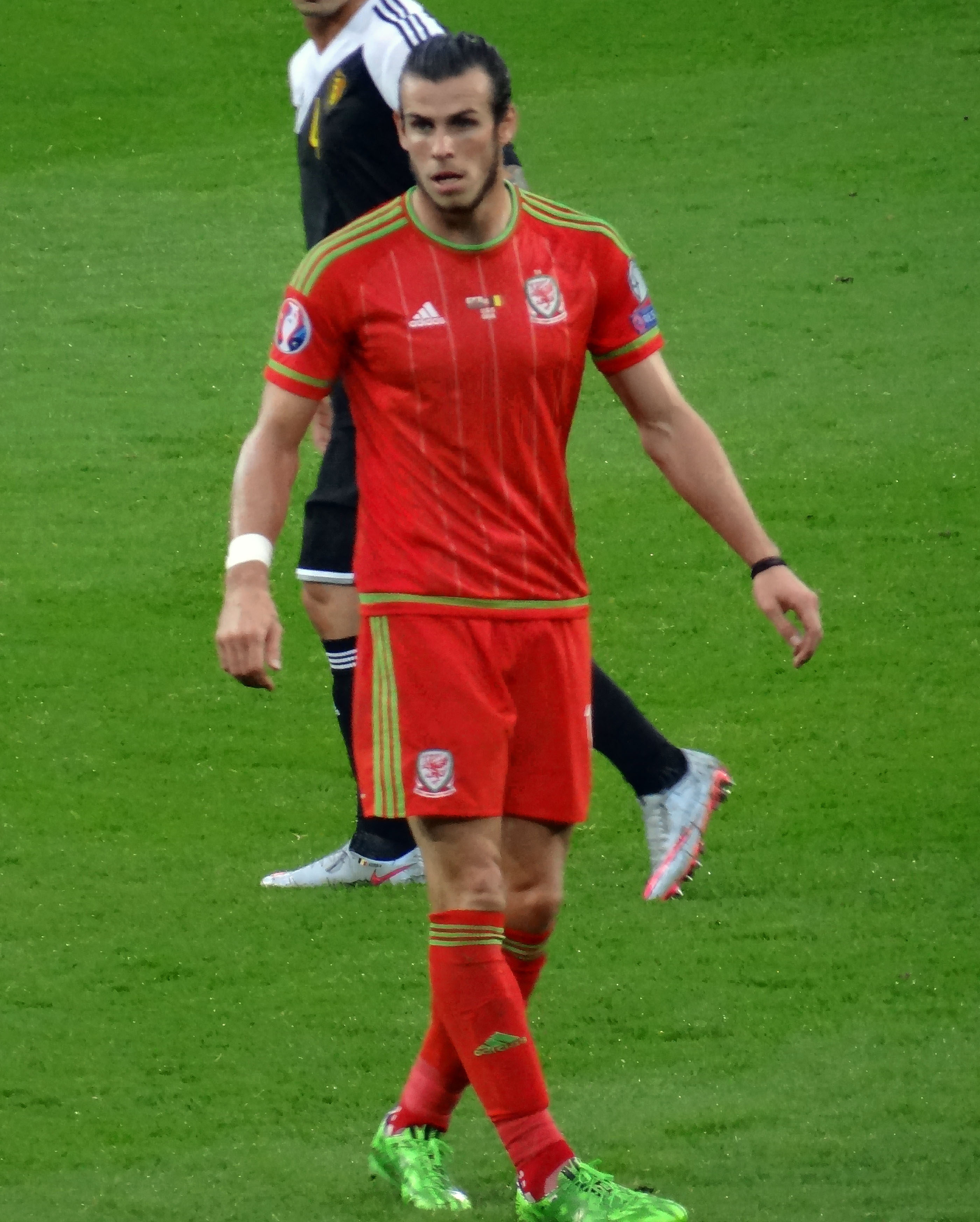 Gareth Bale playing for Wales in 2015.